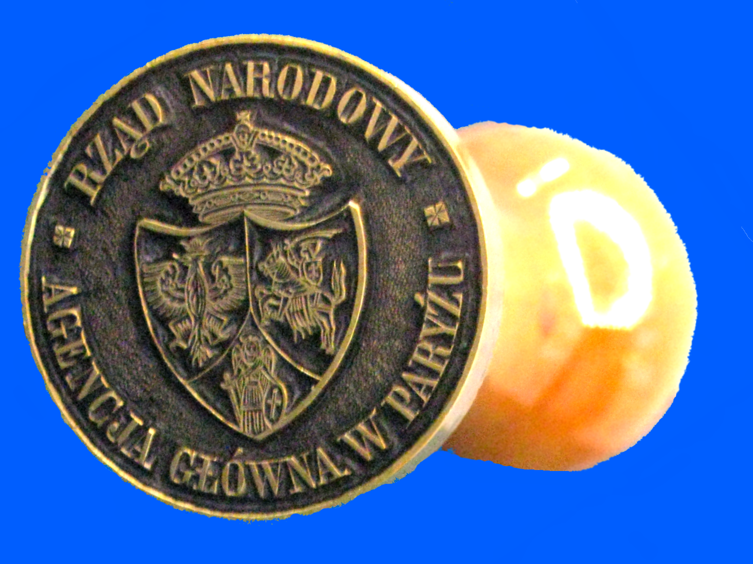 Seal of the Polish Diplomatic Agency in Paris during January Uprising (image reversed)